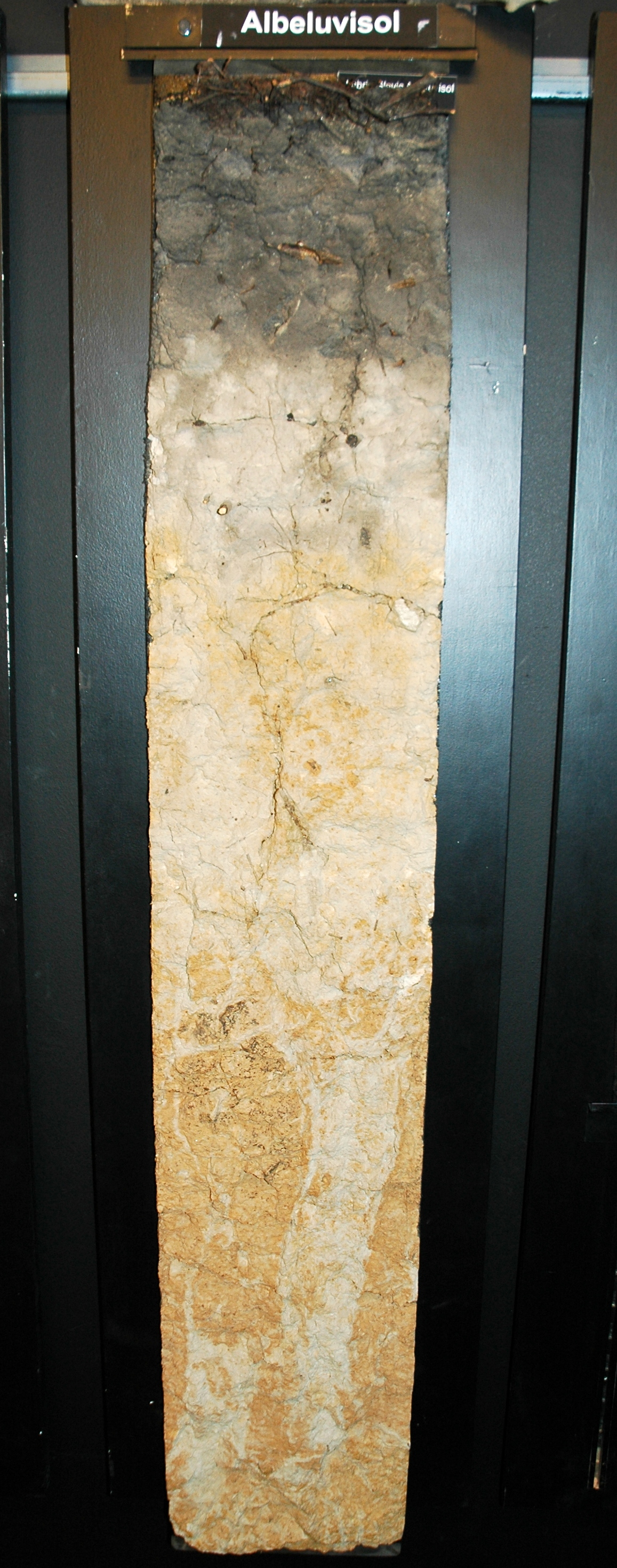 Soil profile of an Albeluvisol